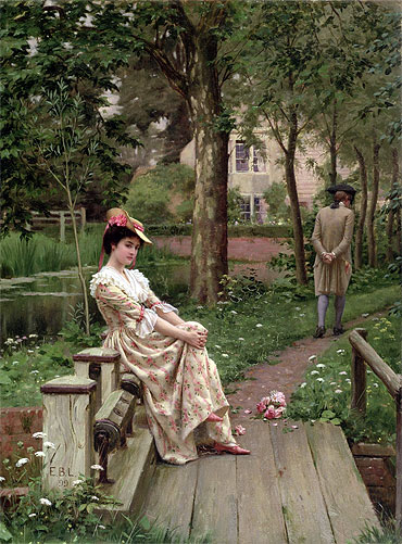 Depiction of the aftermath of a failed marriage proposal, set in the late 18th century